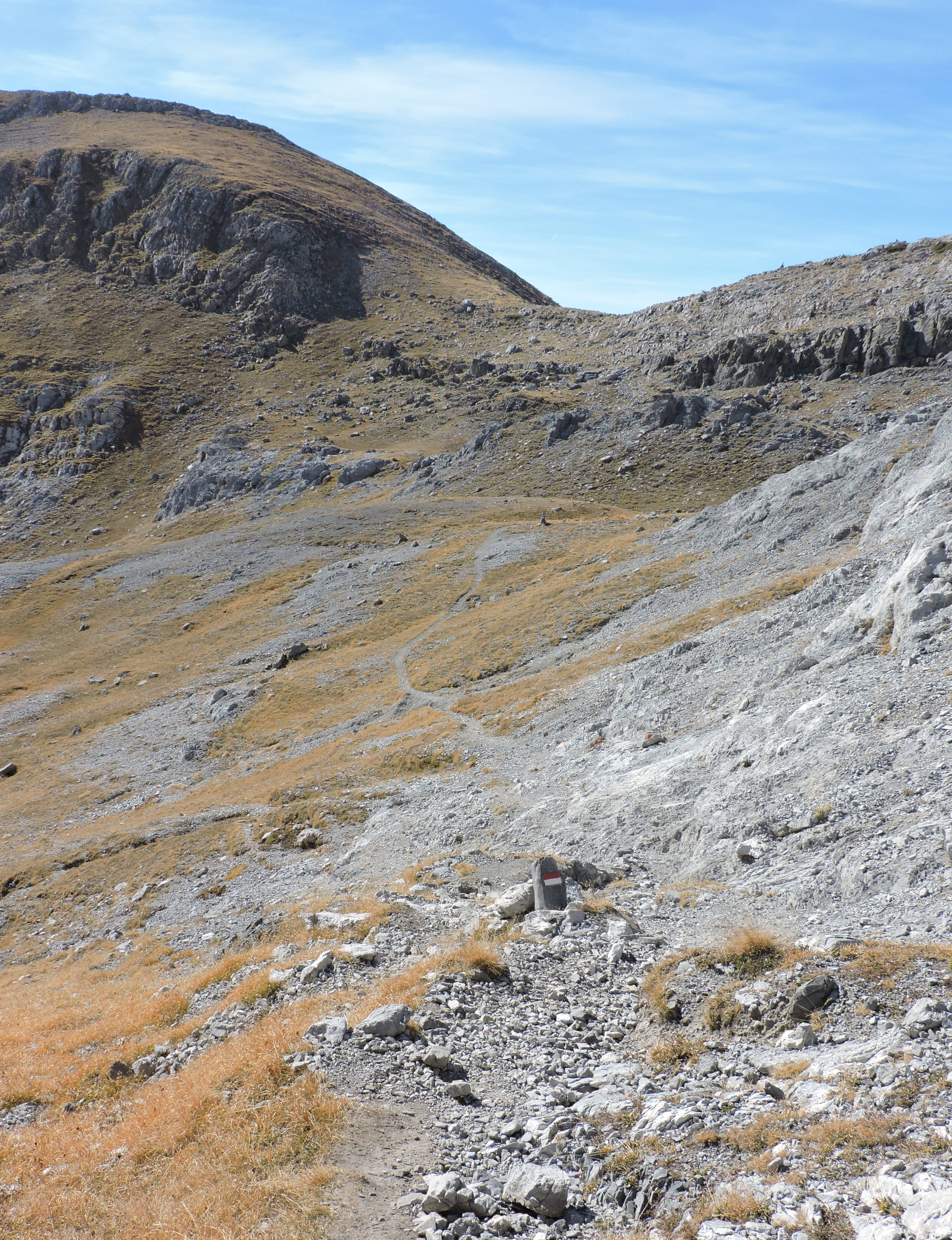 Passo di Gaina (Ligurian Alps, French/Italian border): Itaian side